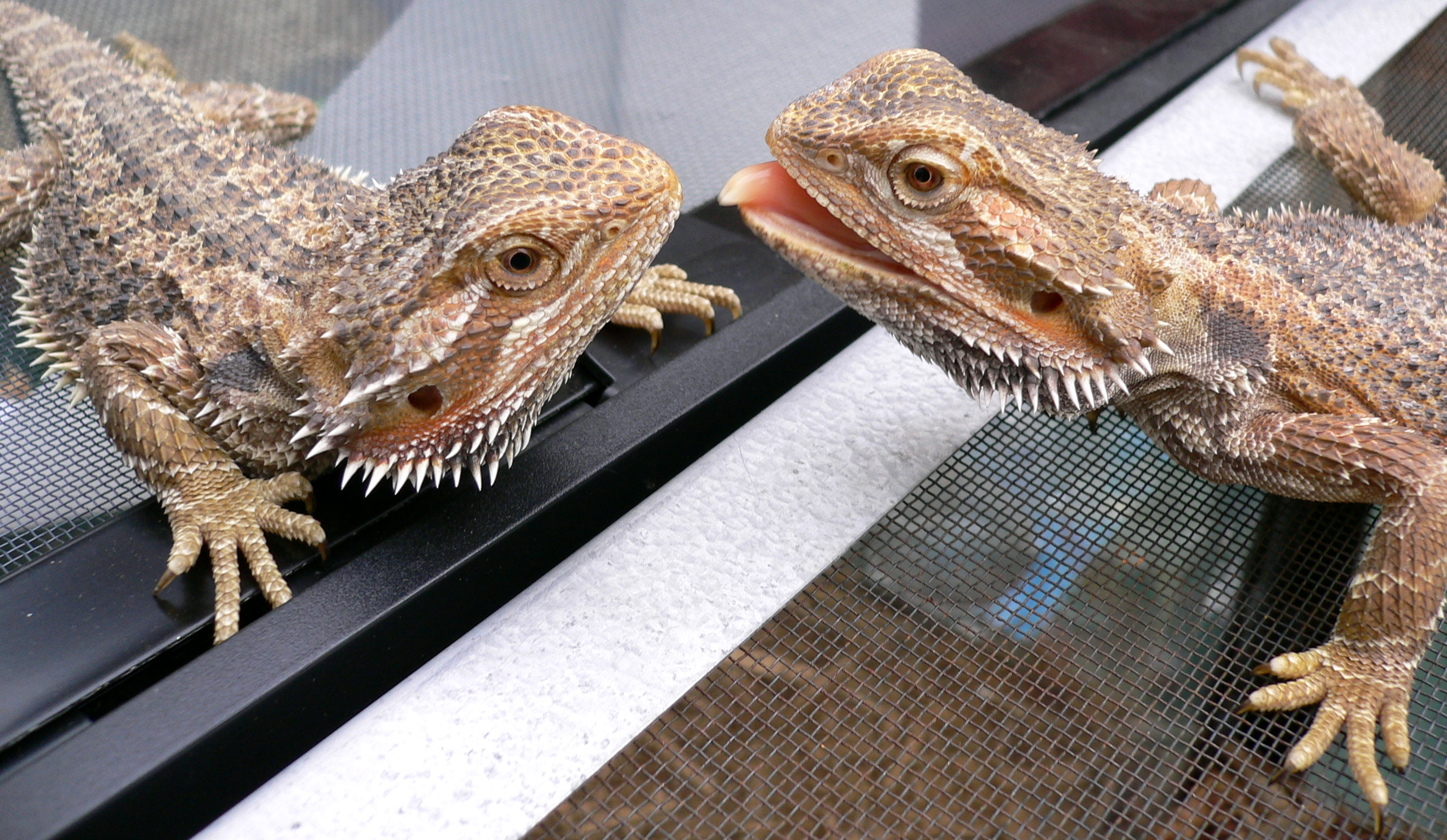 Australian bearded dragonOh L’Amour